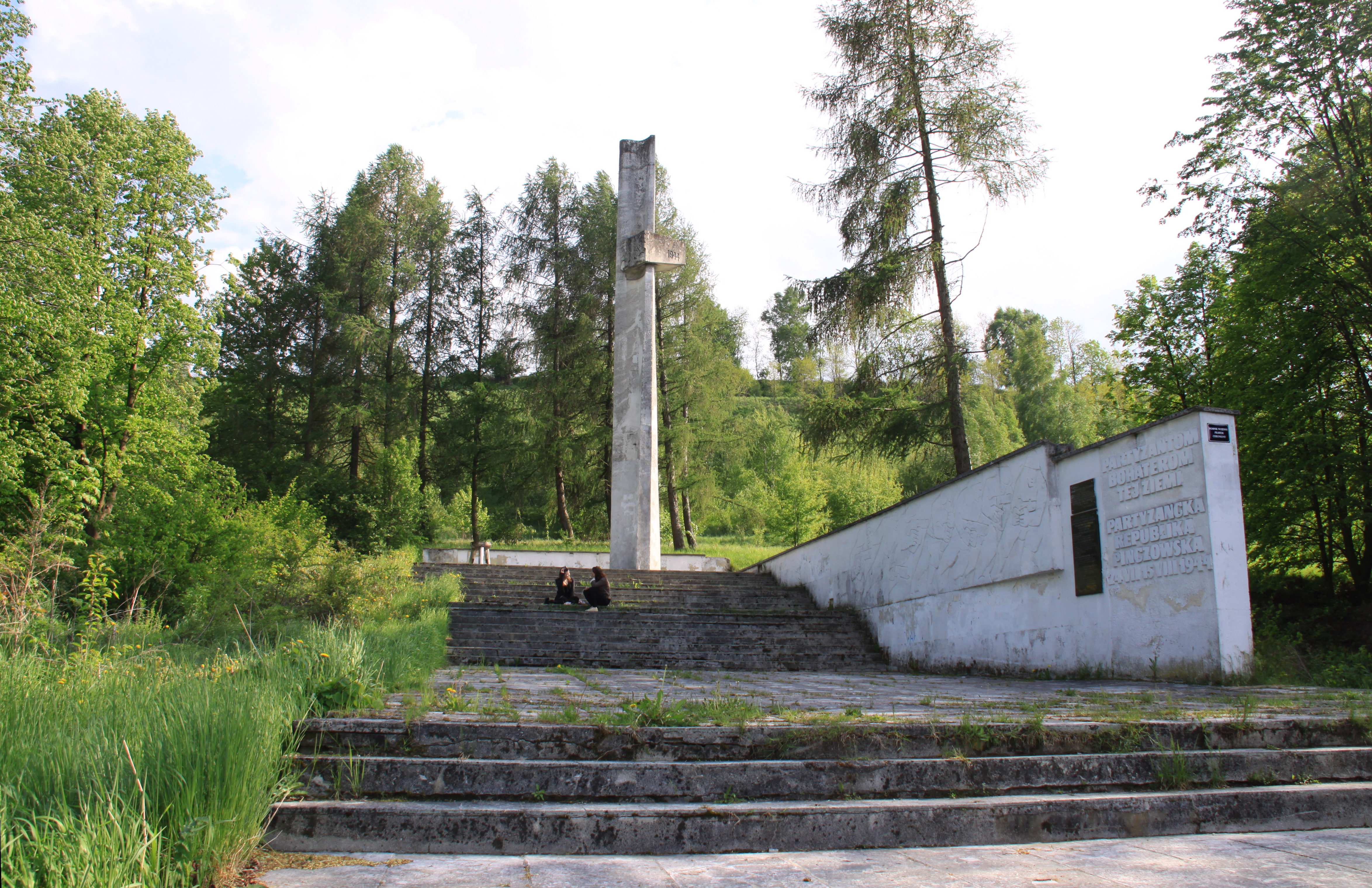 Monument of Pińczów Republic near Góra Byczowska.